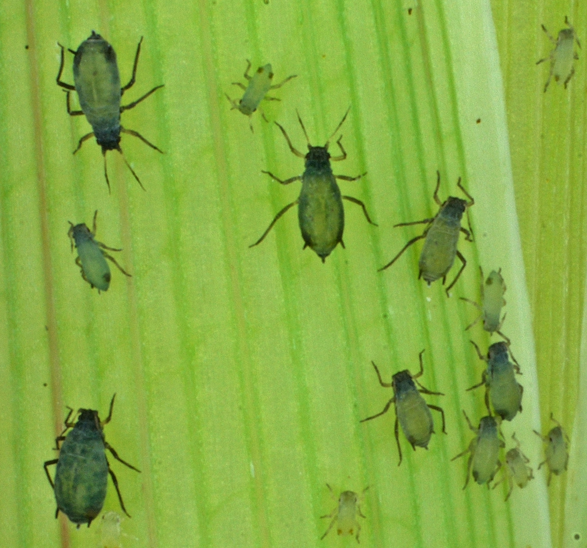 This photo shows corn leaf aphids (Rhopalosiphum maidis) feeding on maize (Zea mays) in a growth chamber at the Boyce Thompson Institute in Ithaca, New York, USA.